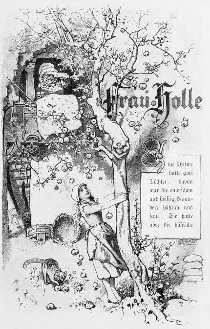 illustration of the Brothers Grimm fairy tale "Mother Hulda"